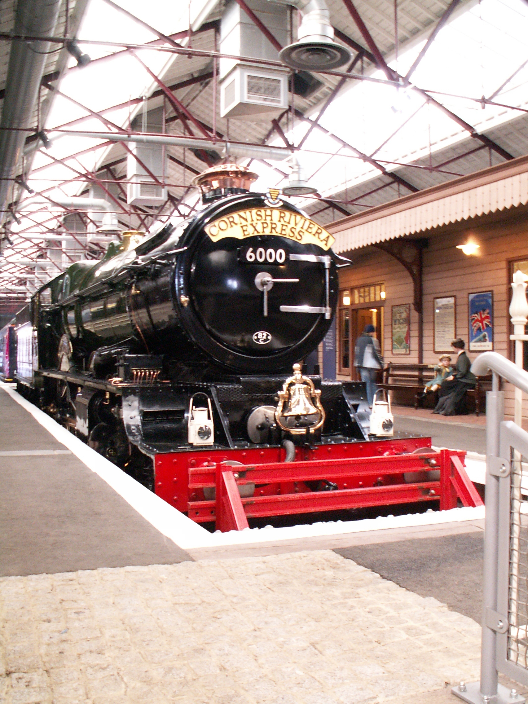 picture by me, taken in the STEAM Museum in Swindon England.